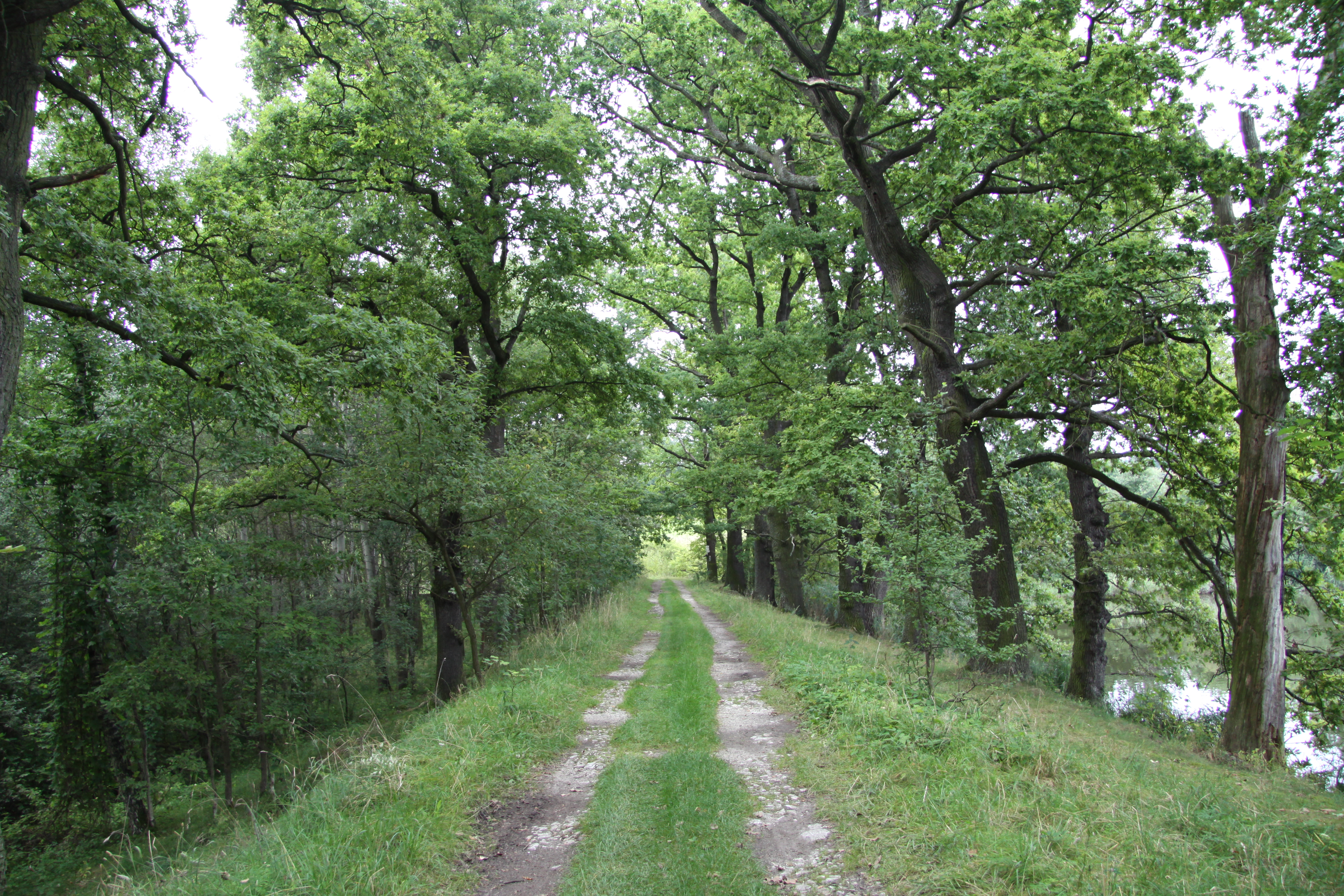 National natural reservation Řežabinec a Řežabinecké tůně, Písek district, Czech Republic.